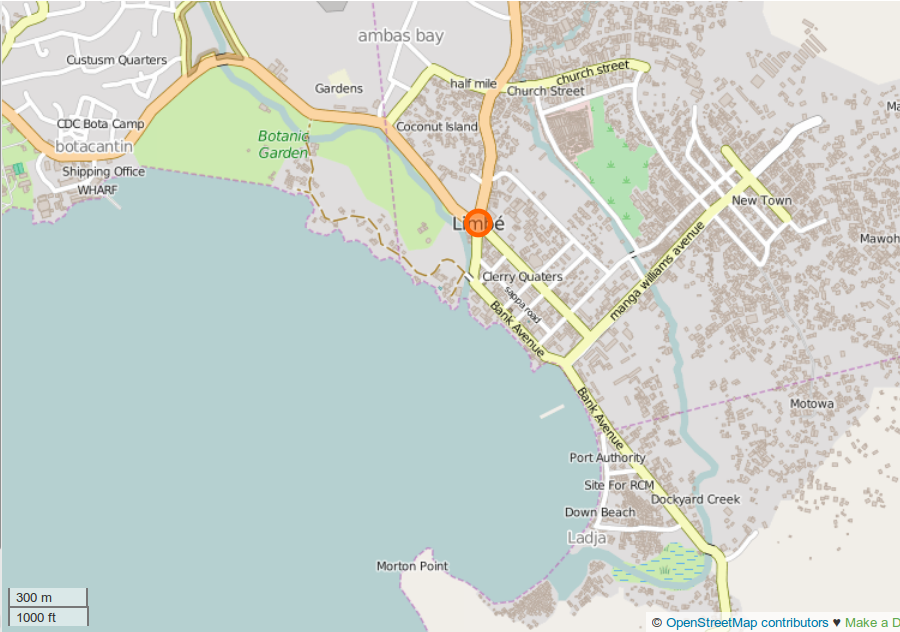 OSM map of Limbé, Cameroon This map may be incomplete, and may contain errors. Don't rely solely on it for navigation.